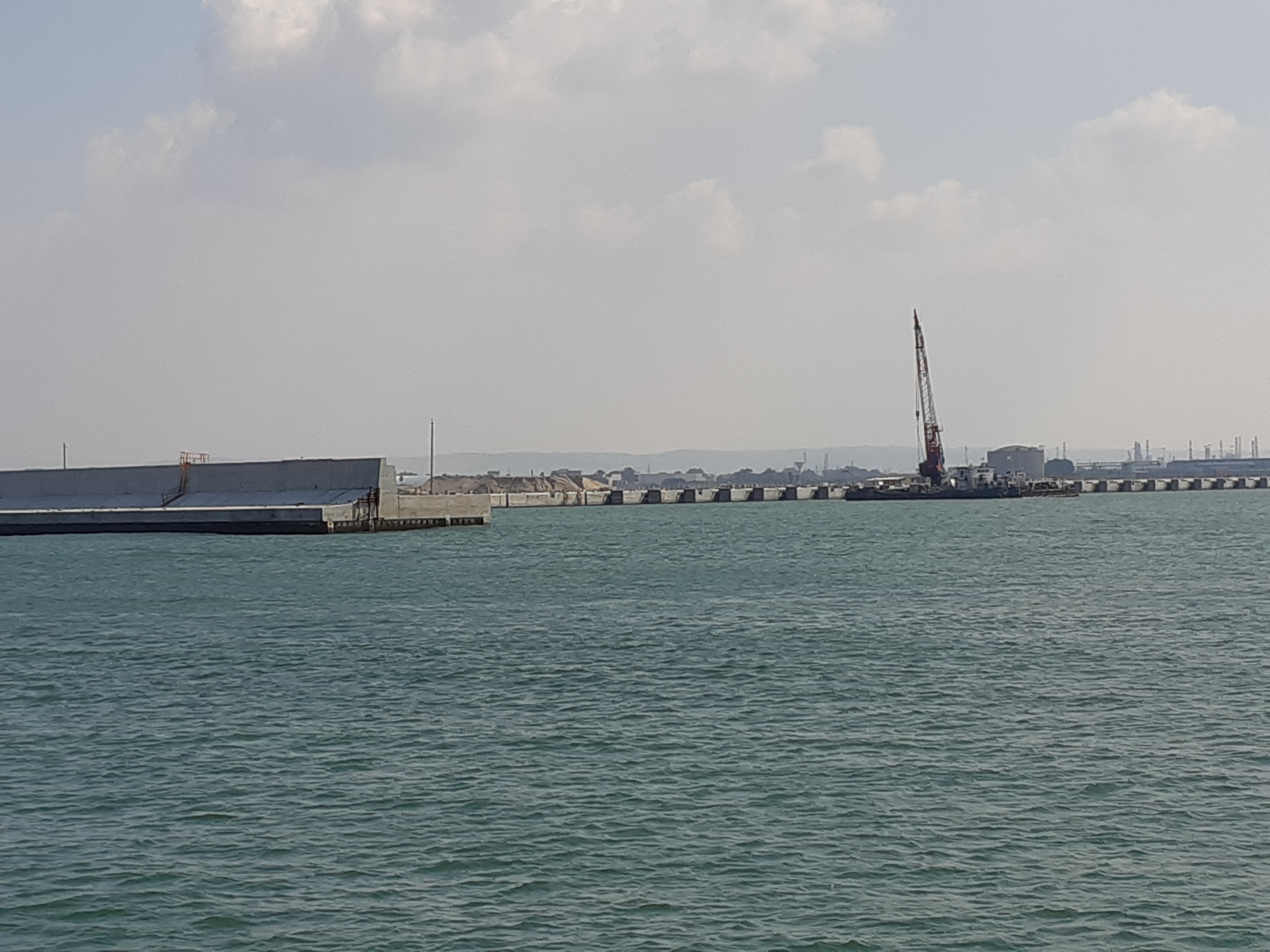 Namal ha Mifratz Under Constraction Haifa port